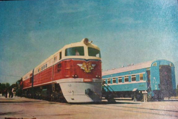 China Railways "Julong" (Great Dragon) diesel locomotive shown in the National Industrial Transportation Exhibition of 1958